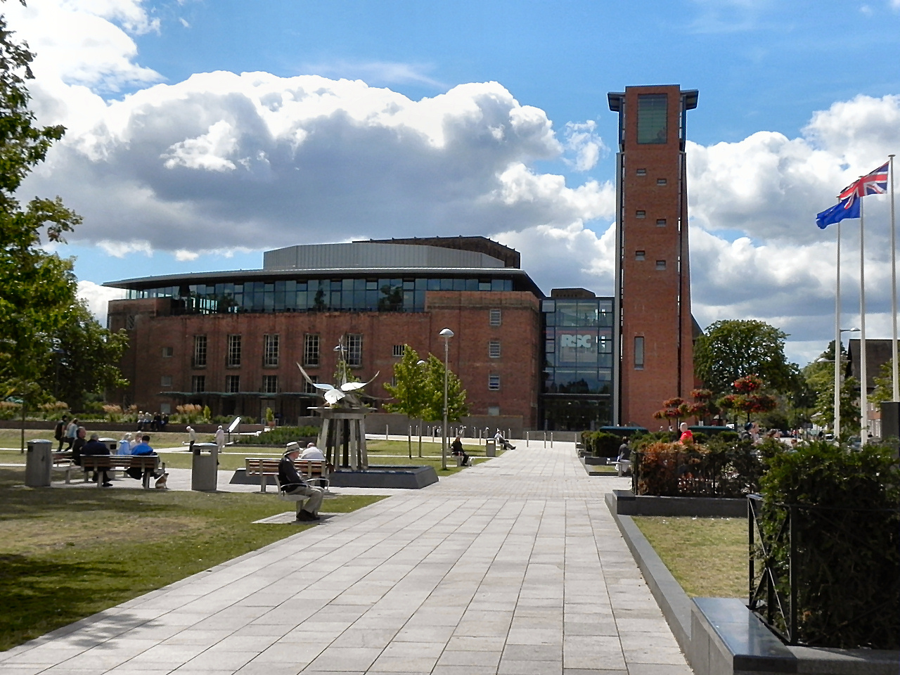 Royal Shakespeare Theatre.The Royal Shakespeare Theatre re-opened in 2010 after extensive modifications. It has seating for over 1000 patrons.